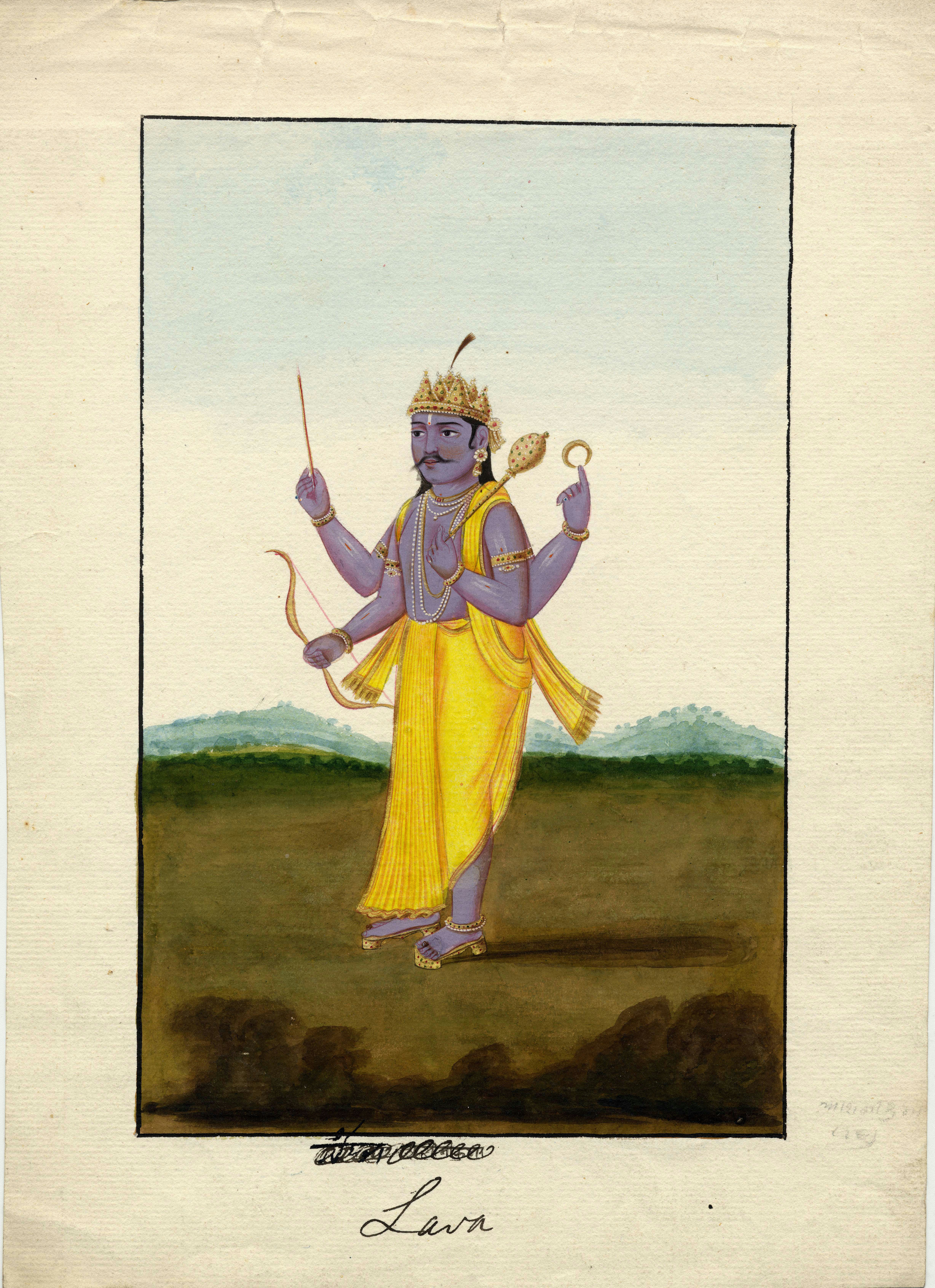 Watercolour painting on paper of Lava, one of Rāma’s sons. He is shown as a crowned male with purple skin. He has four arms; in his upper right hand he holds an arrow and with his lower right he holds a bow. In his upper left hand he holds a mace which he rests on his shoulder and with his lower right he holds the discus. He wears a yellow dhoti and shawl over his shoulders. On his head is a golden crown and he wears wooden sandals on his feet. Jewellery is shown on his arms, neck, chest, ankles and ears. In the foreground of the painting is shown foliage and hills are shown in the far distance. The painting is surrounded by a black border.